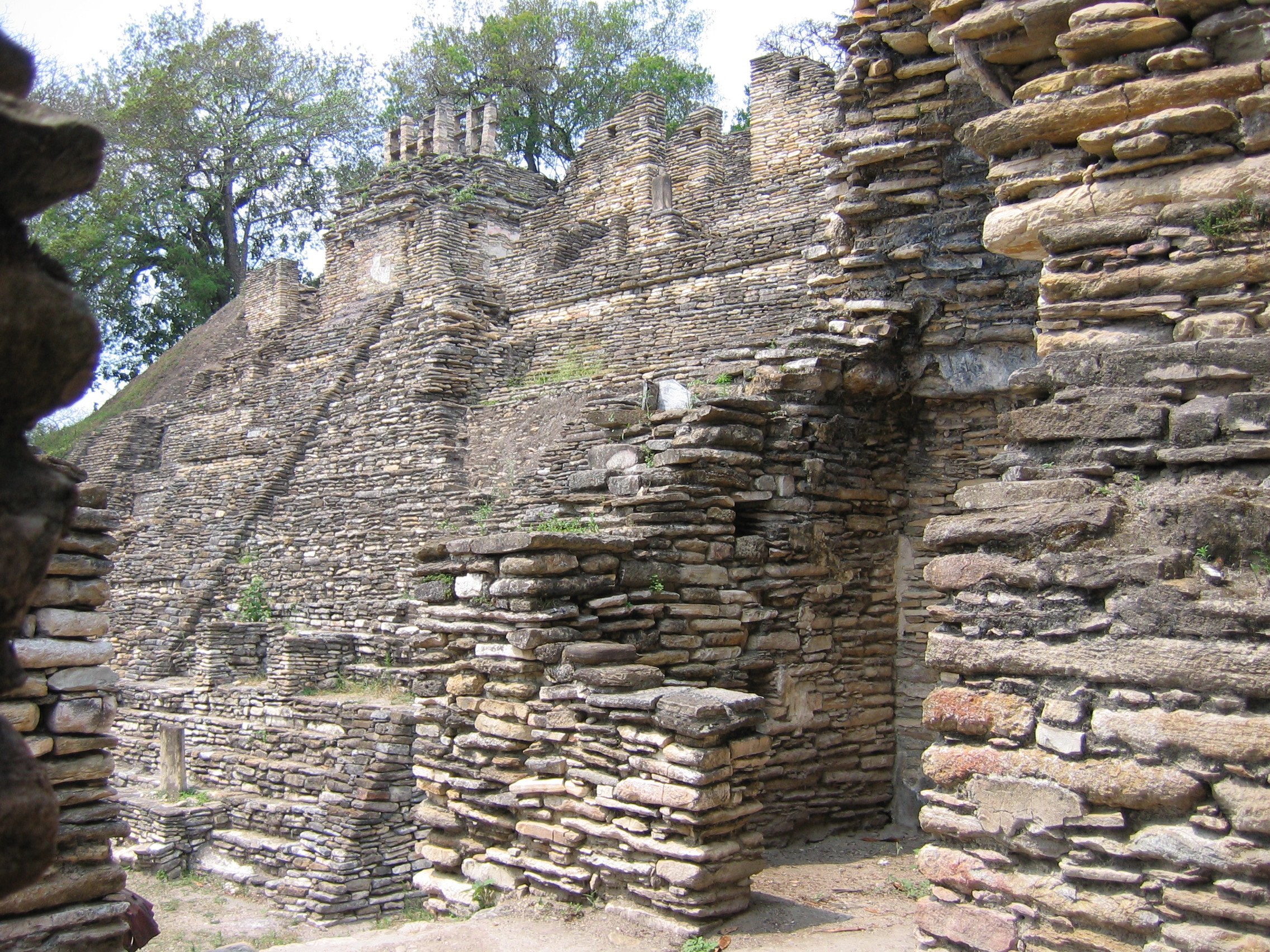 Photo taken by Poppy in March 2005. Tonina - Temples